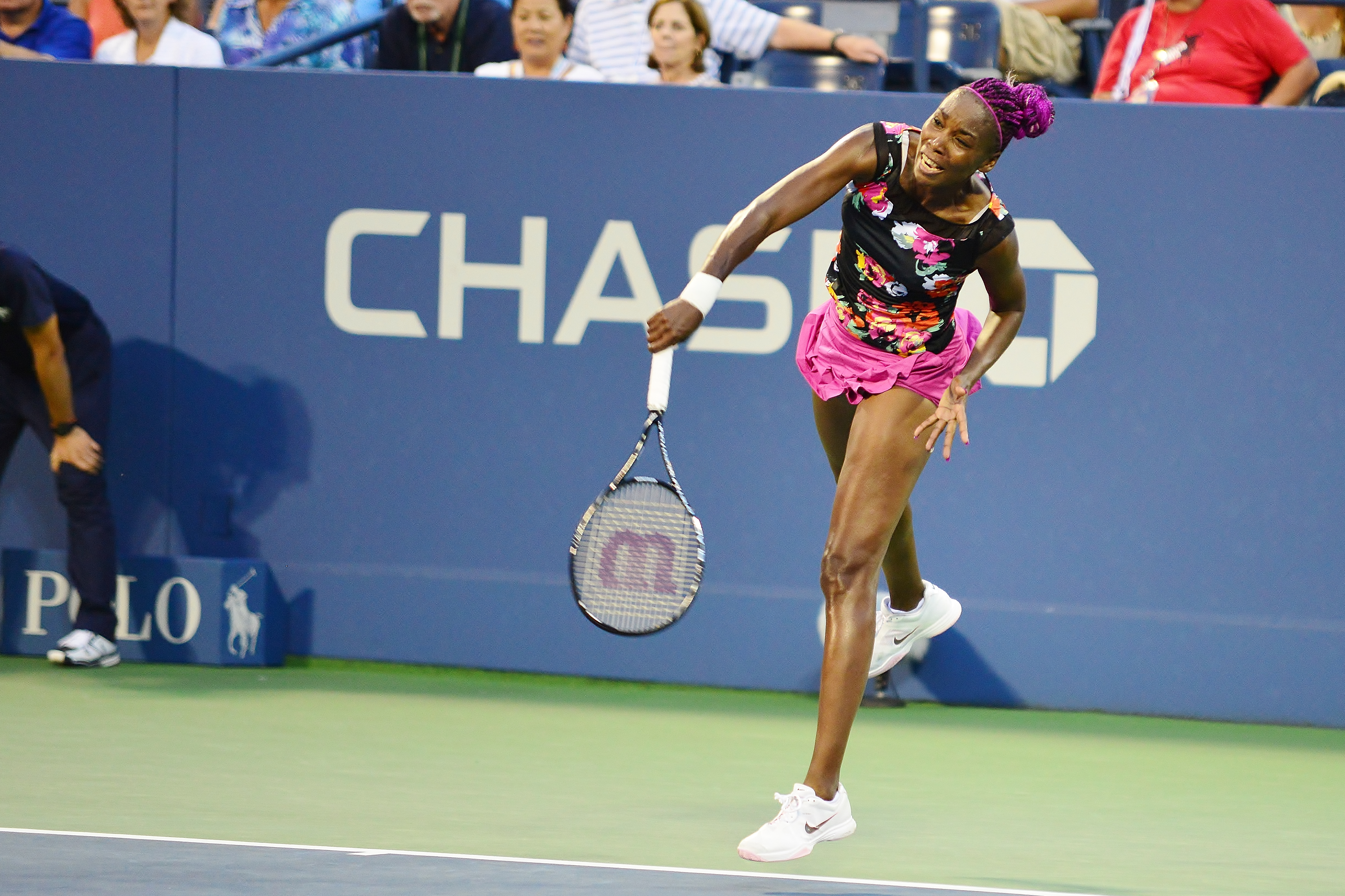 1st round doubles action from the Women's draw at the 2013 US Open. Serena and Venus Williams defeated Silvia Soler-Espinosa and Carla Suarez Navarro; 6-7(5), 6-0, 6-3